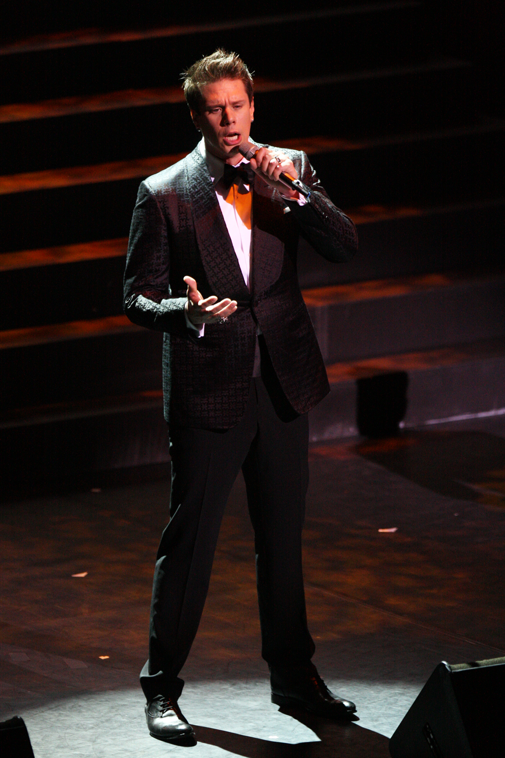 Il Divo Orchestra in Concert At Sydney Opera House Il Divo (divine male performer in Italian) performed at the world famous Sydney Opera House tonight - Valentine's Day in Australia. They are a multinational operatic pop vocal group created by music manager, executive, and reality TV star Simon Cowell. They are currently signed to Sony Music Entertainment. The group was originated in the UK, however most people believe they were formed in Italy. Il Divo is a group of four male singers: French pop singer Sébastien Izambard, Spanish baritone Carlos Marín, American tenor David Miller, and Swiss tenor Urs Bühler. To date, they have sold more than 26 million albums worldwide. Sebastien told the press: "We're so excited to be kicking off our 2012 tour in Australia. Valentines Day, performing at the Sydney Opera House is going to be such a memorable start to a world tour... it really feels like coming home. It’s a country full of my favourite things: Tim Tams, Whale Beach, shopping on Chapel Street and one of the best zoos in the world. We can't wait to have the time whilst on tour to enjoy it all!" Izambard, who married Melbourne publicist Renee back in 2008, also said he couldn't wait to spend time at the beach and have barbecues with his Australian relatives. "It always feels like coming home for me," he said. They have more than 25 million album sales globally, 150 gold and platinum discs and have more than 2 million concert tickets sold. The idea behind Il Divo's creation came to Cowell after hearing Andrea Bocelli singing Con te partirò while watching The Sopranos. They combine amazing voices, class and great looks. The group is expected to continue to draw strong audience numbers while touring Australia. Websites Il Divo Sydney Opera House Live Nation Flourish PR Eva Rinaldi Photography Flickr Eva Rinaldi Photography Music News Australia